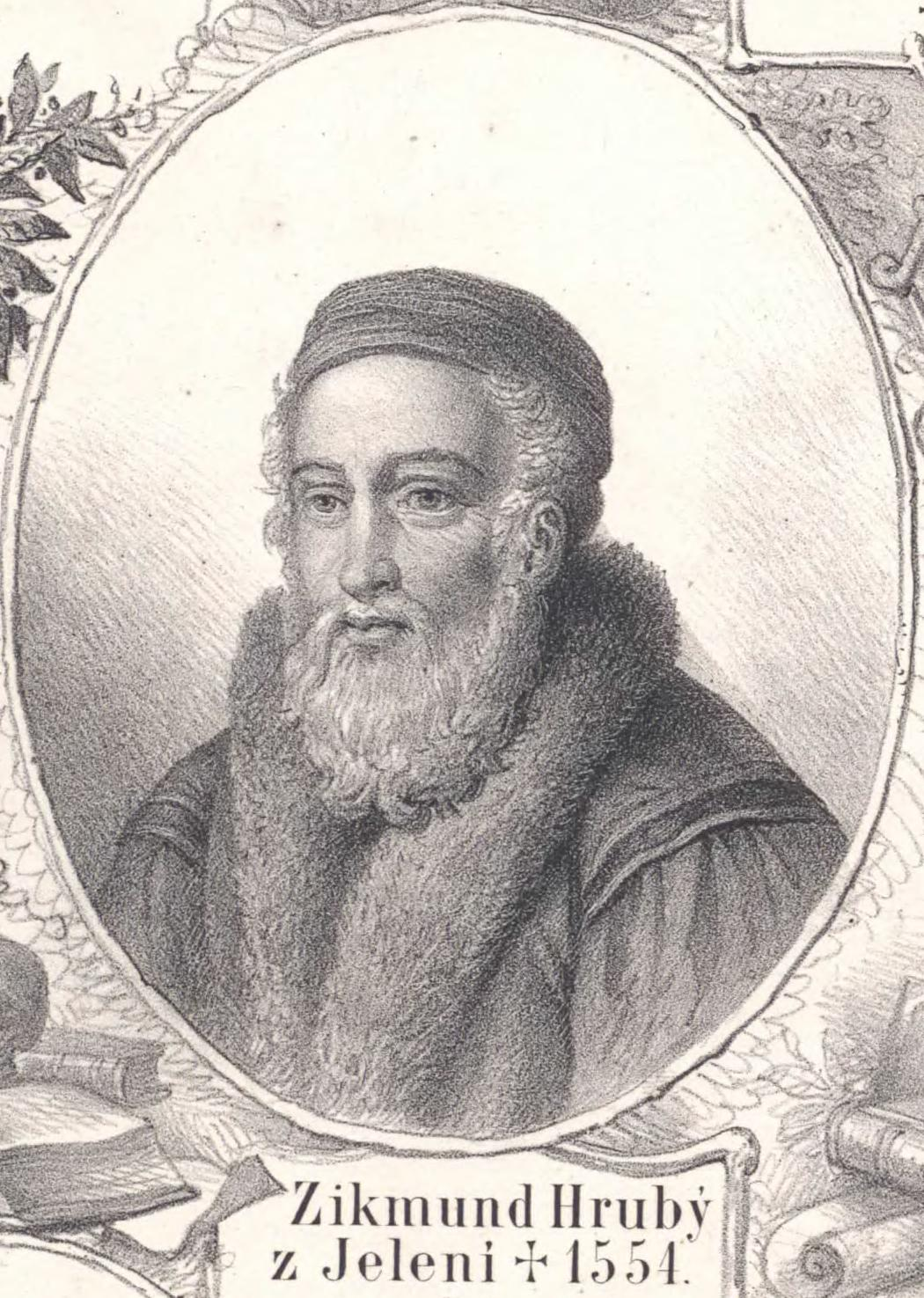 Portrait of Zikmund Hrubý z Jelení (1497 - 1554, in Latin known as Sigismundus Gelenius), Czech writer and scholar.